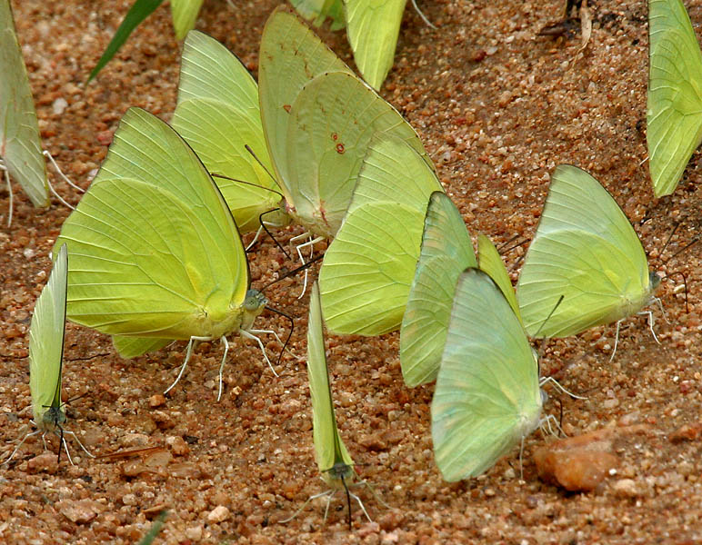 Common Emigrant or Lemon Emigrant Catopsilia pomona (syn. Catopsila crocale) in Narsapur, Medak district, Andhra Pradesh, India.